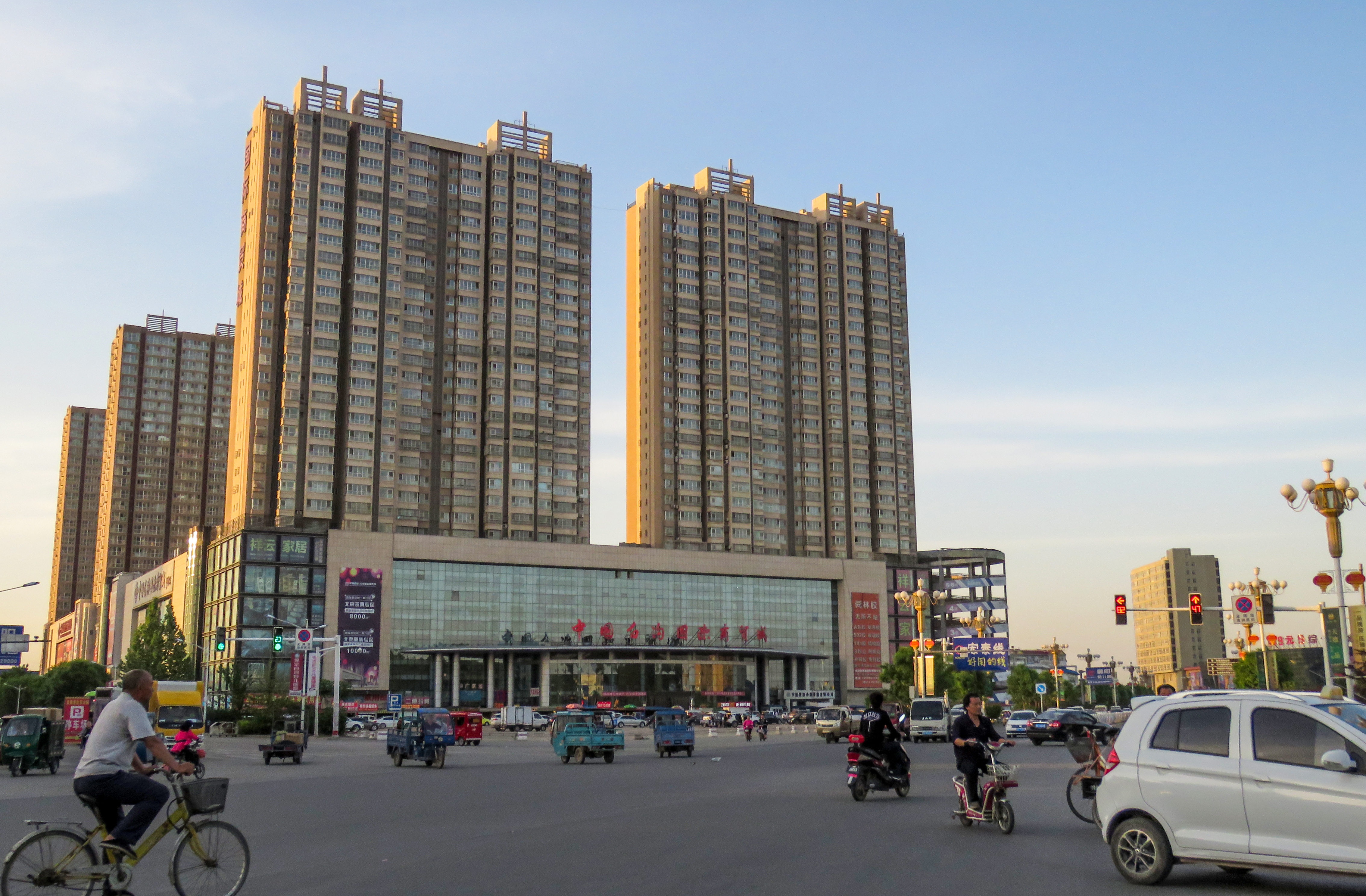 The town of Baigou, reputed for leather case and bag businesses, is quite adjacent to Xiong'an.